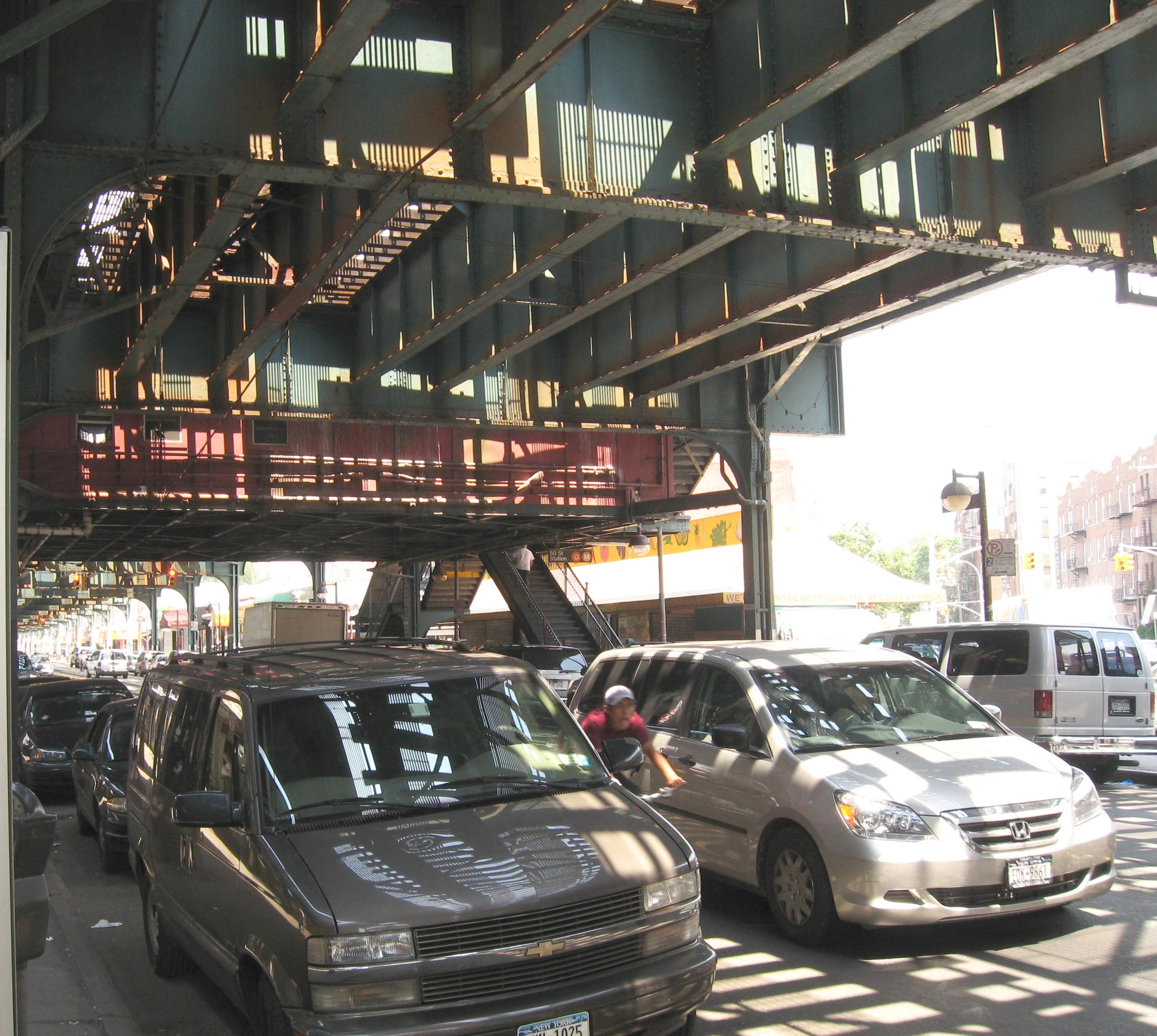 Looking northeast at en:50th Street (BMT West End Line) stair on a sunny midday